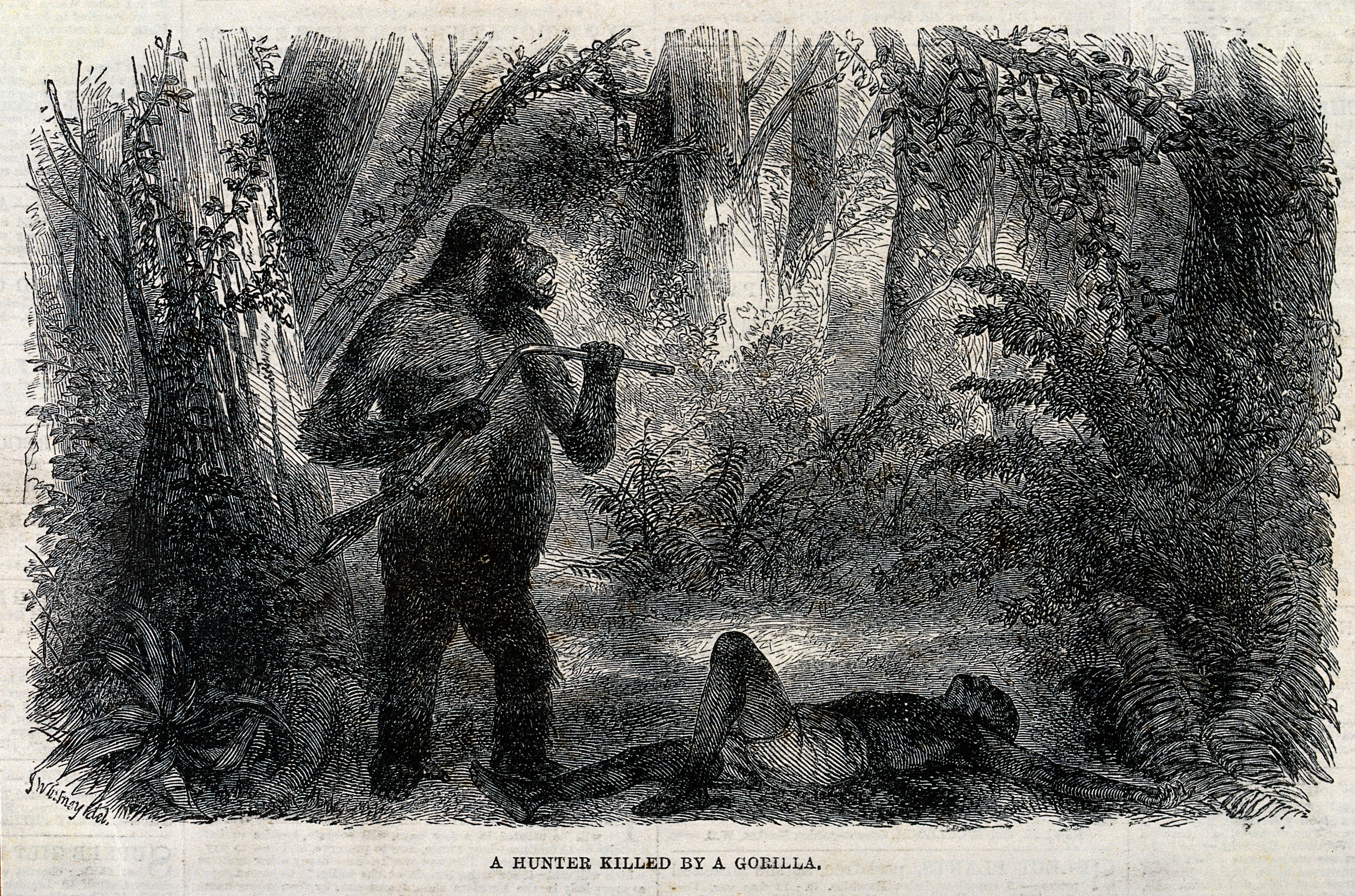 A gorilla which has just killed a hunter with his own weapon. Wood engraving after J Whitney. Iconographic Collections Keywords: Whitney